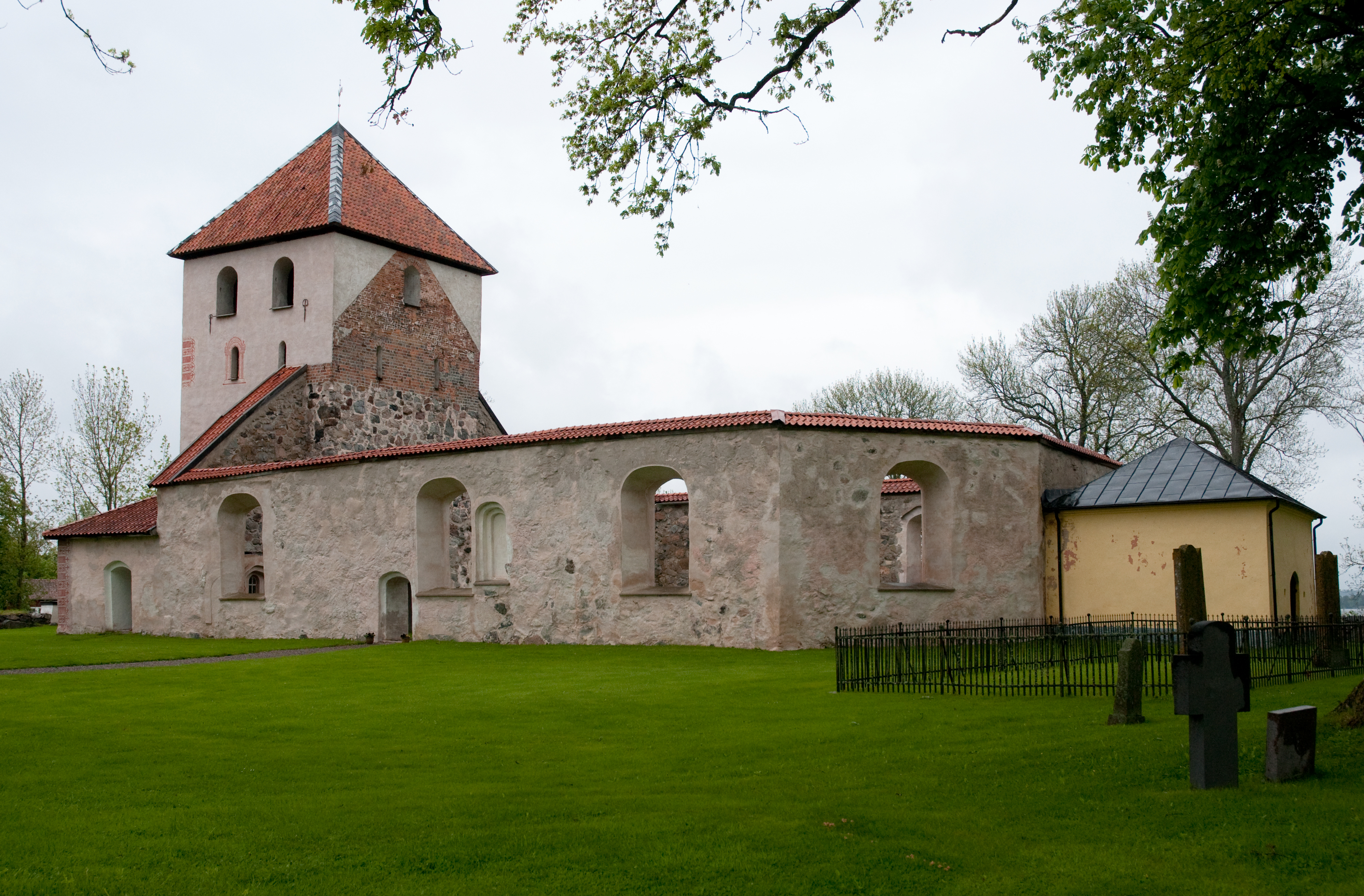 Björkvik old church was burned in 1869